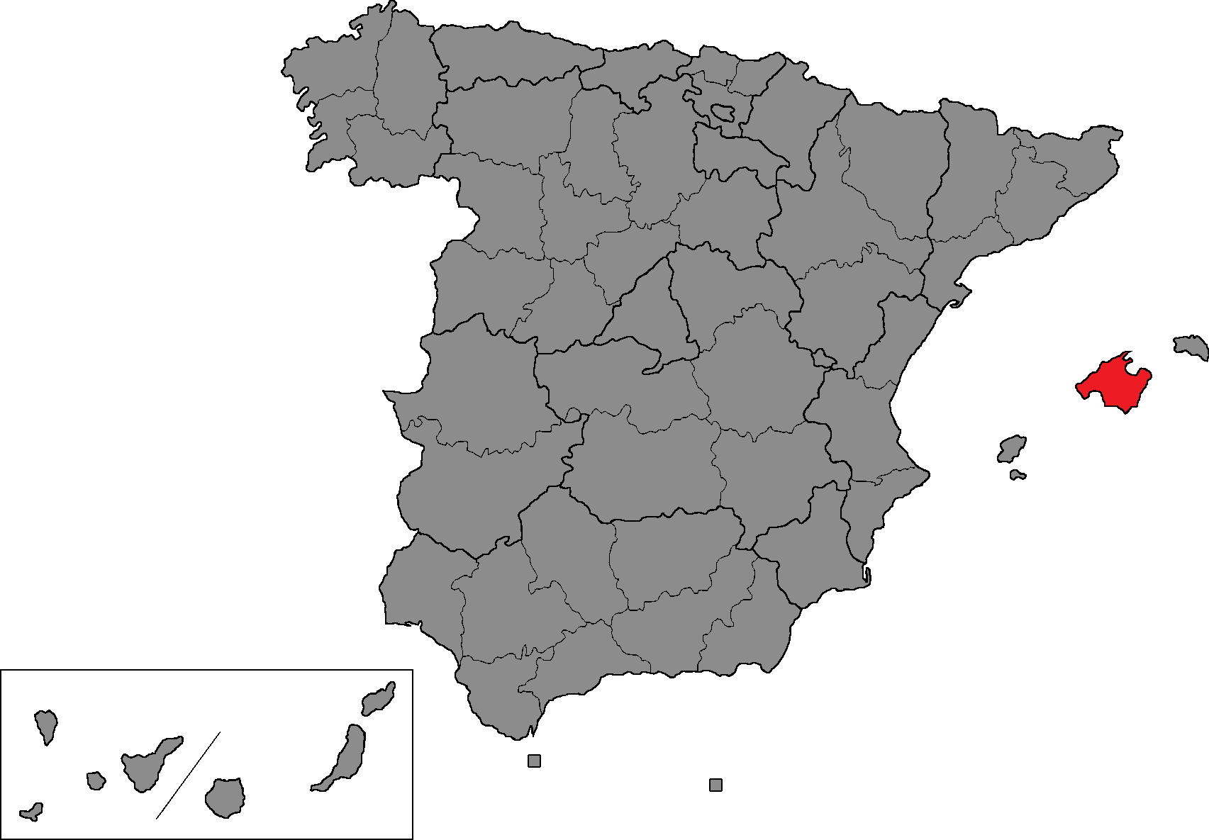 Spanish Senate district of Mallorca.